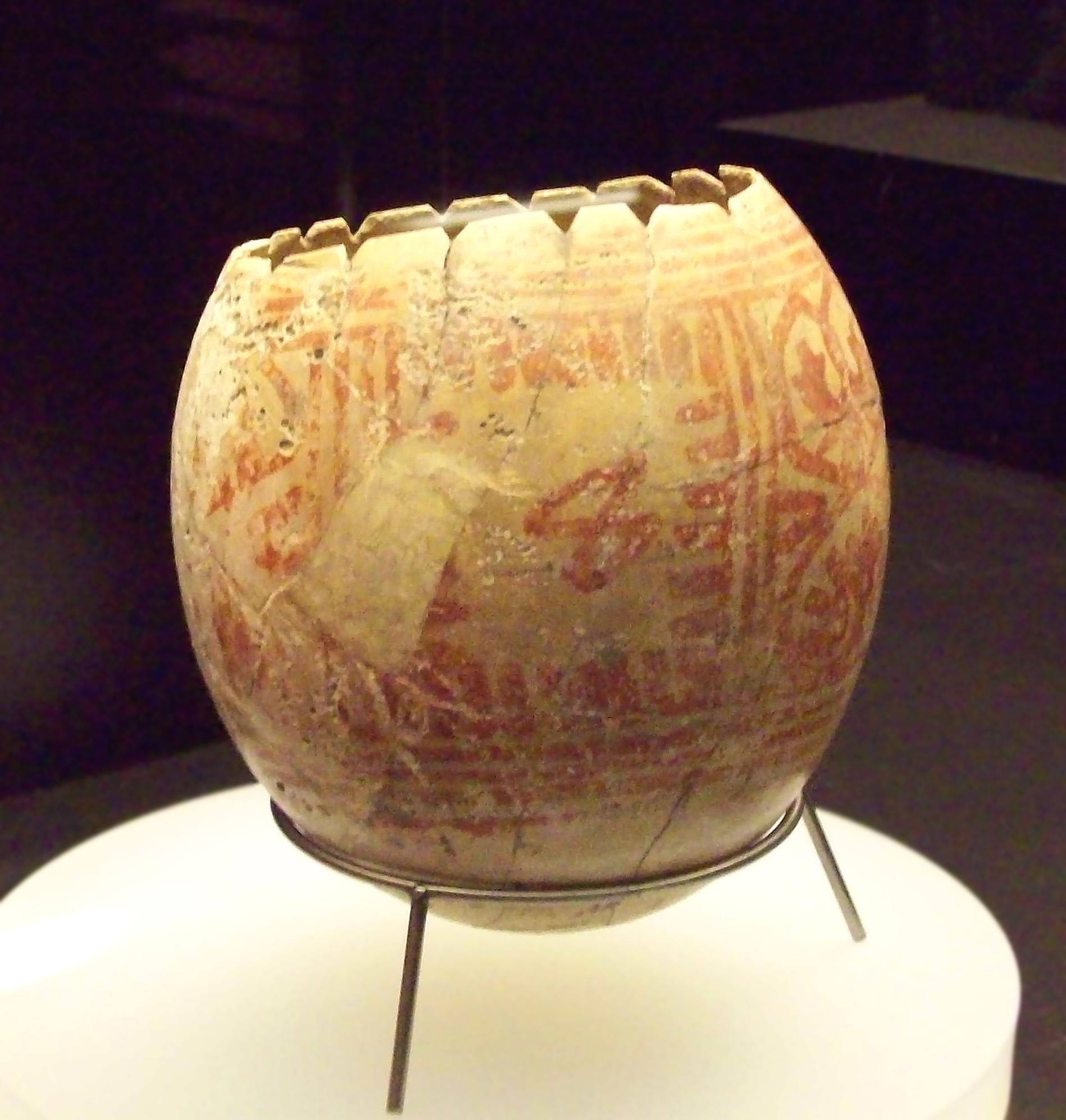 An ostrich egg decorated with painted red lines. Punic artwork from the Iron Age II.